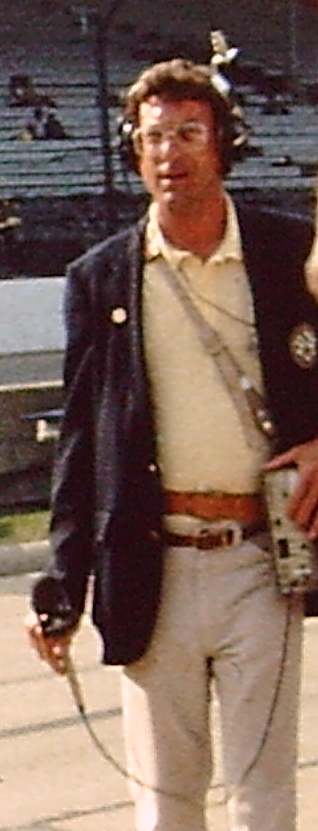 Bob Jenkins at the 1985 Indianapolis 500